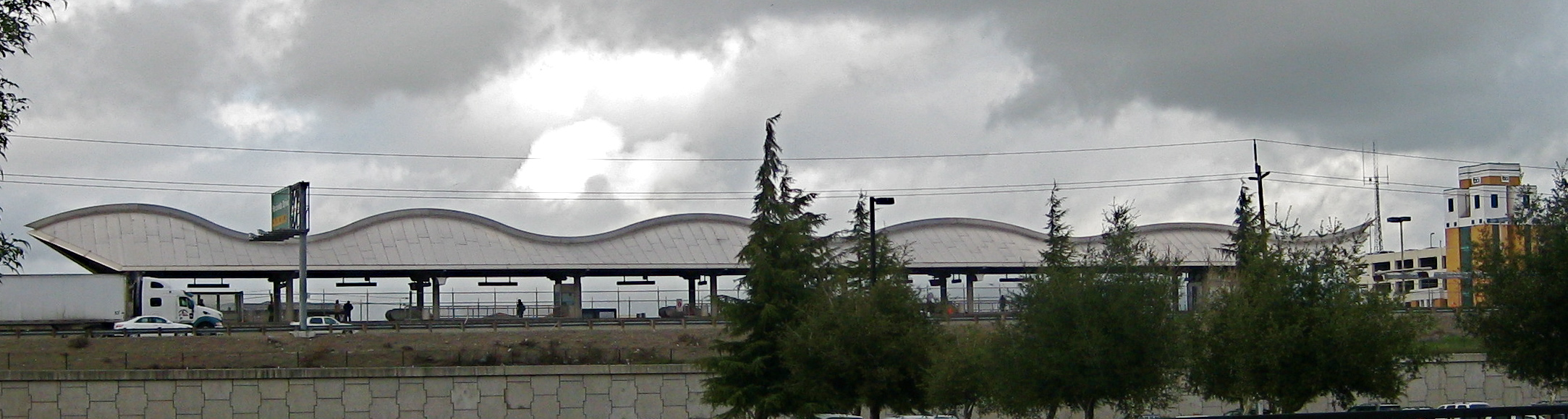 Dublin / Pleasanton BART station canopy roof, taken from Owens Drive in Pleasanton. Dublin-side BART parking structure visible to the right